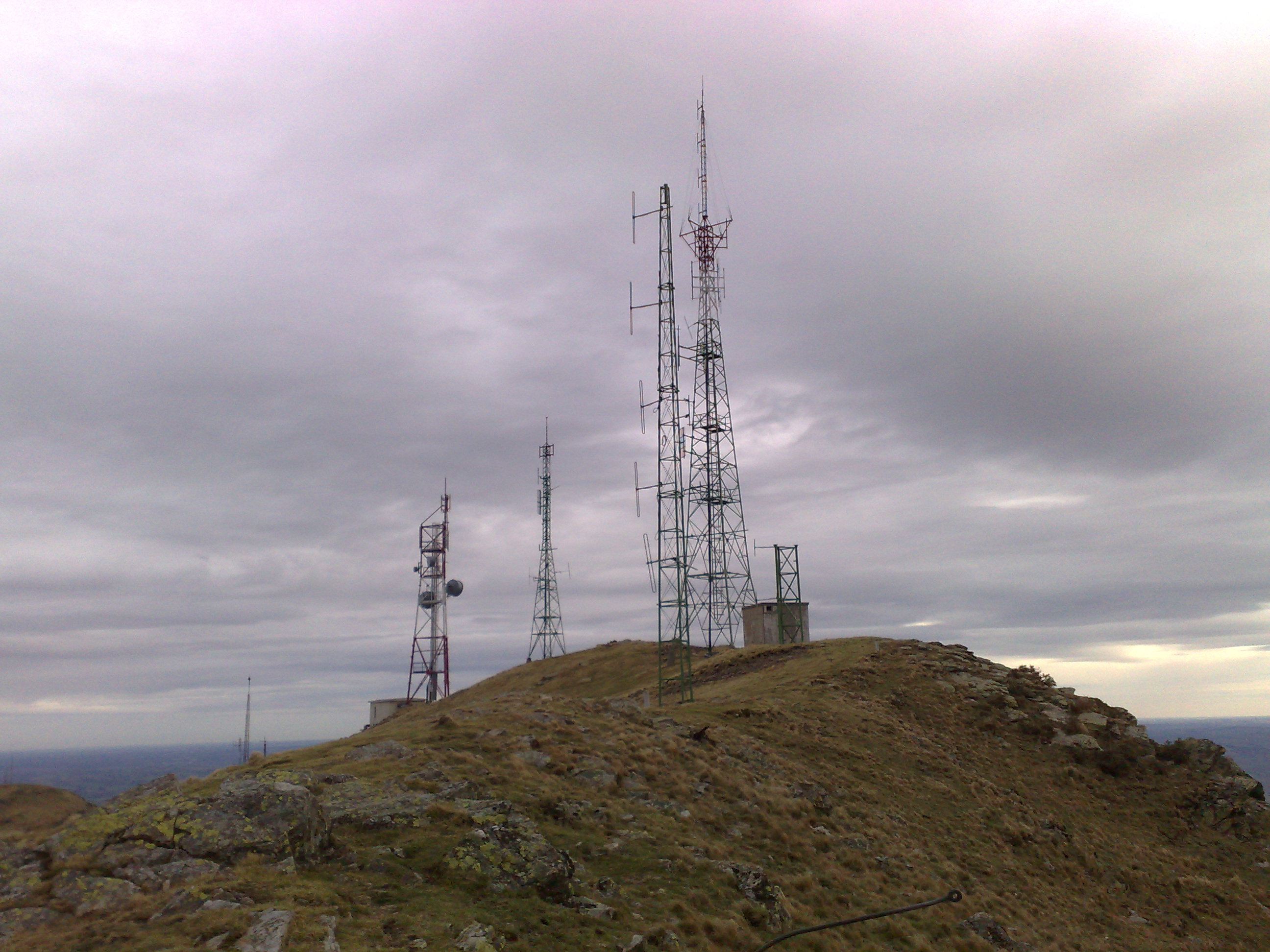 Top of Mount Baigura seen from the south, Lapurdi-Labourd and Lower Navarre, Basque Country.